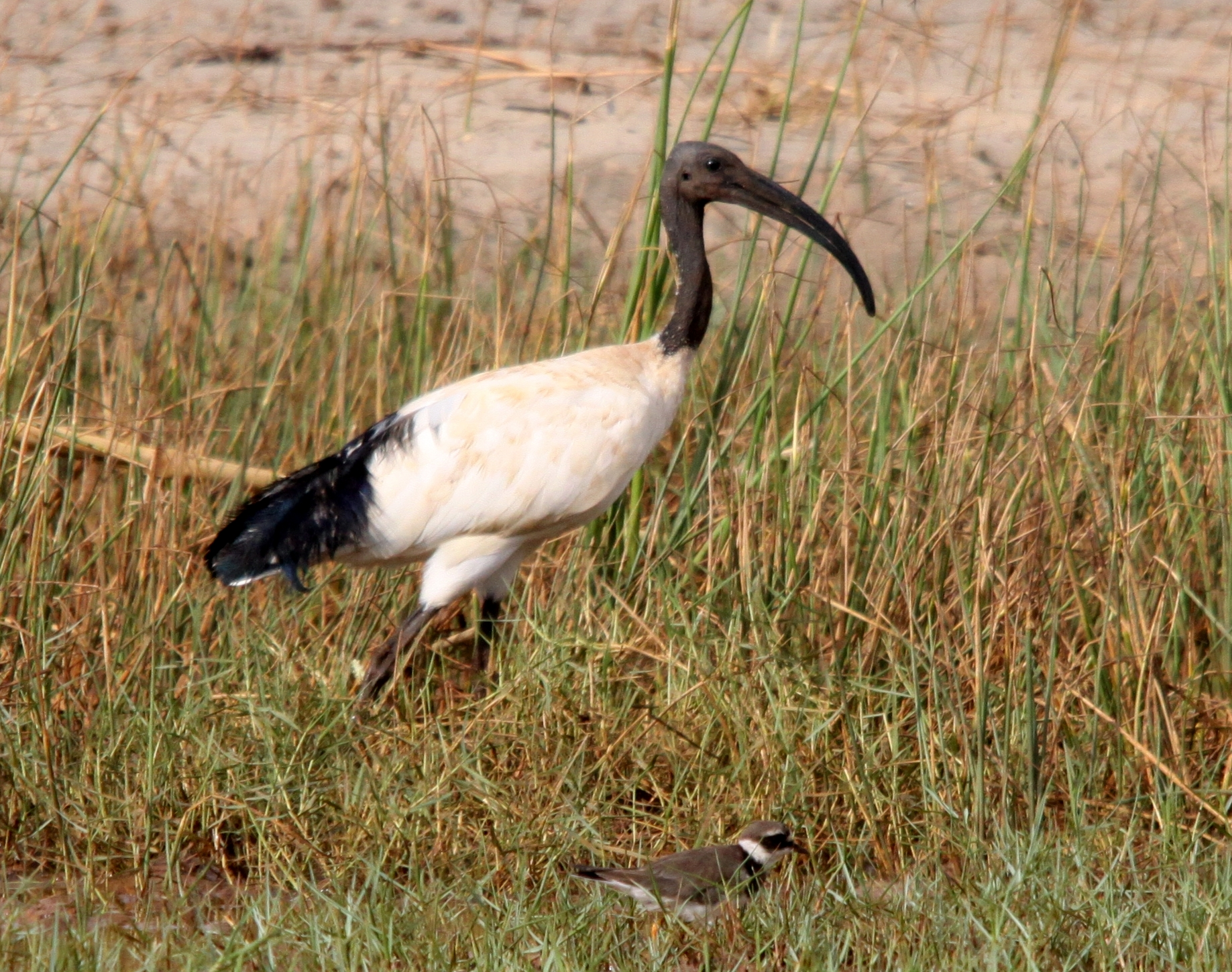 Threskiornis aethiopicus, photographed in Kenya